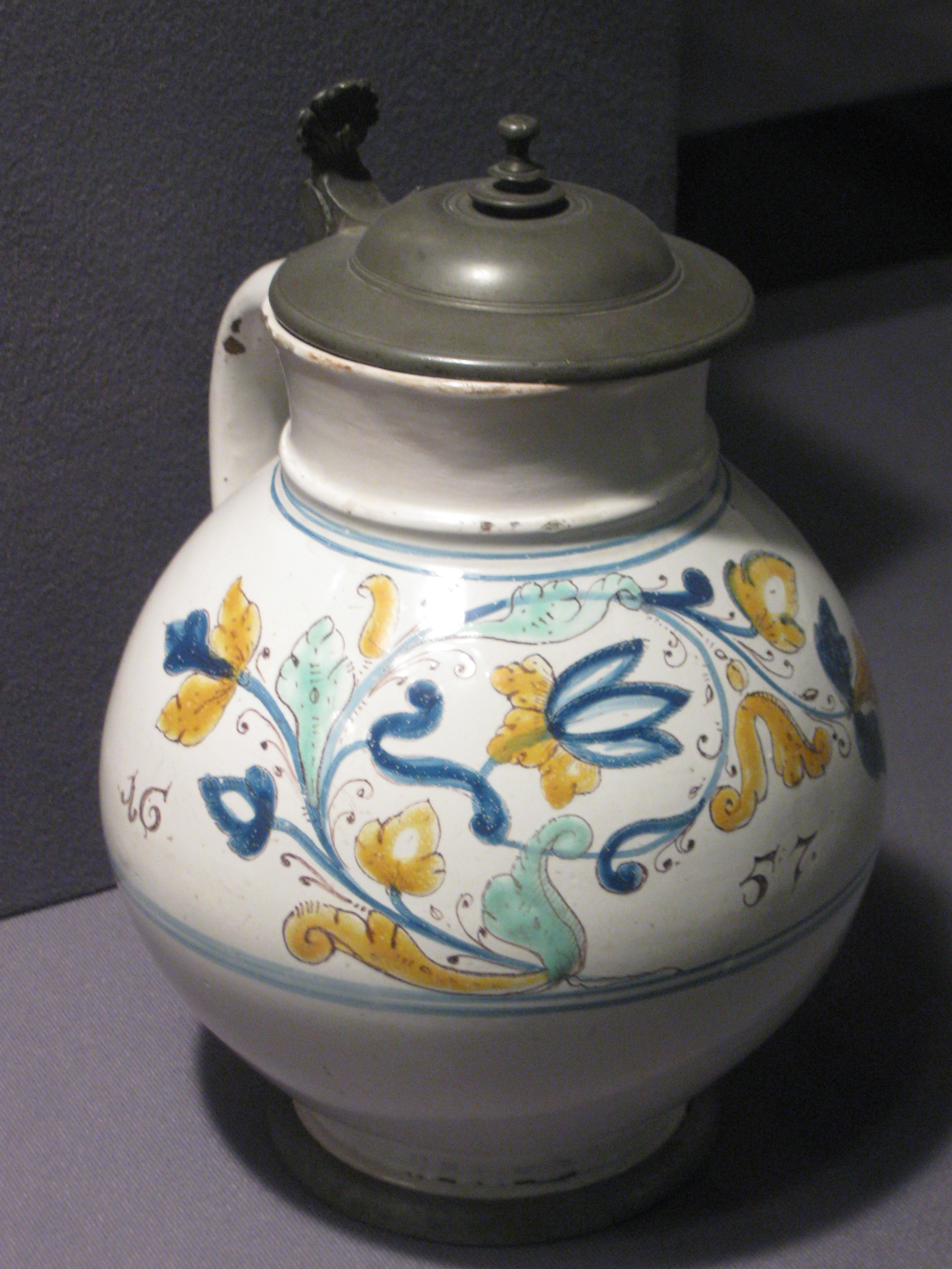 This is a fine tin-glazed earthenware faience tankard made by Anabaptists or Haben potters in Moravia (present day Slovakia). This tankard dates to 1657 and its UBC Museum of Anthropology catalogue No. is Ch 111. The beautiful floral colour decorations--blue derives from cobalt, green originates from copper and yellow from antimony--was probably applied by female Anabaptists. Its location is in UBC's Point Grey campus in Vancouver, BC, Canada.